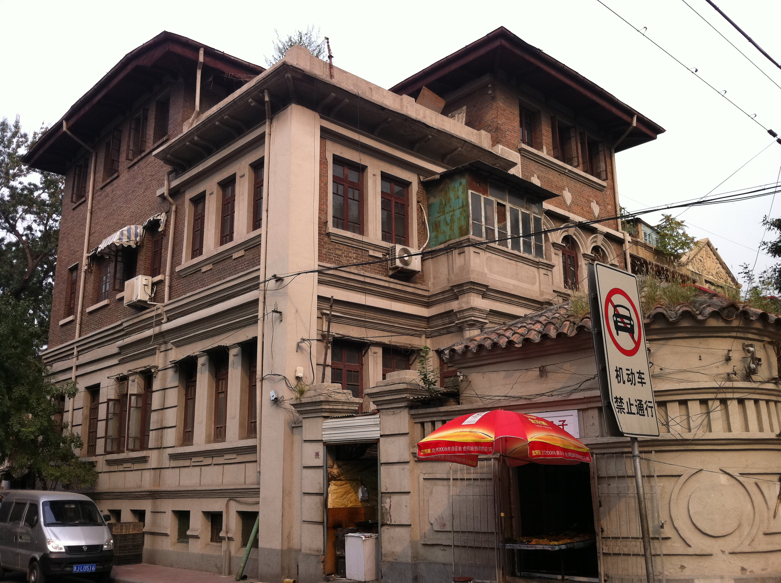 Former Residence of Lu ZhongLin (鹿钟麟, 1884–1966) in Shaanxi Lu No. 53, Heping District, Tianjin